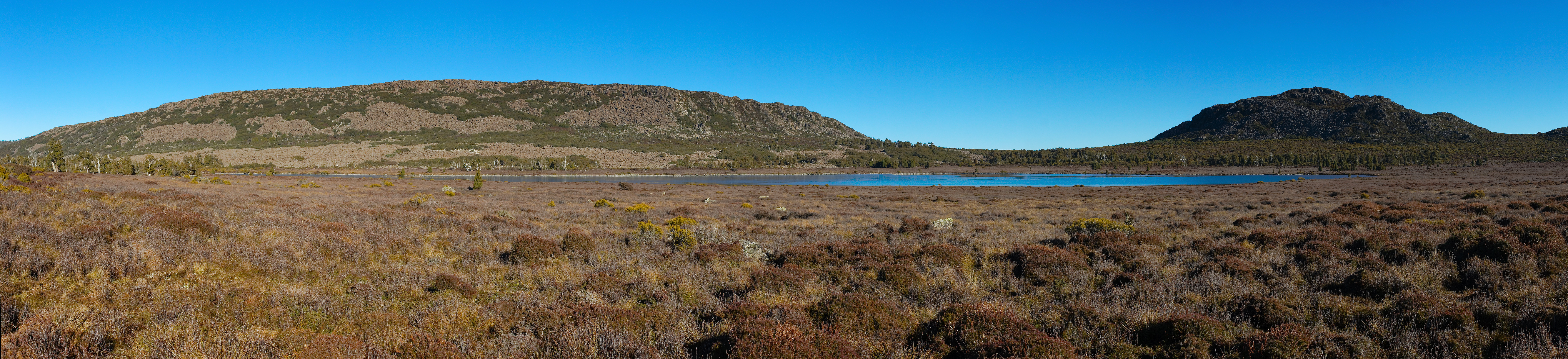 Pine Lake, Central Highlands, Tasmania Camera data Camera Canon EOS 400D Lens Canon EF-S 18-55mm f3.5-5.6 IS Focal length 55 mm Aperture f/8 Exposure time 1/60, 1/250, 1/1000 s Sensivity ISO 100